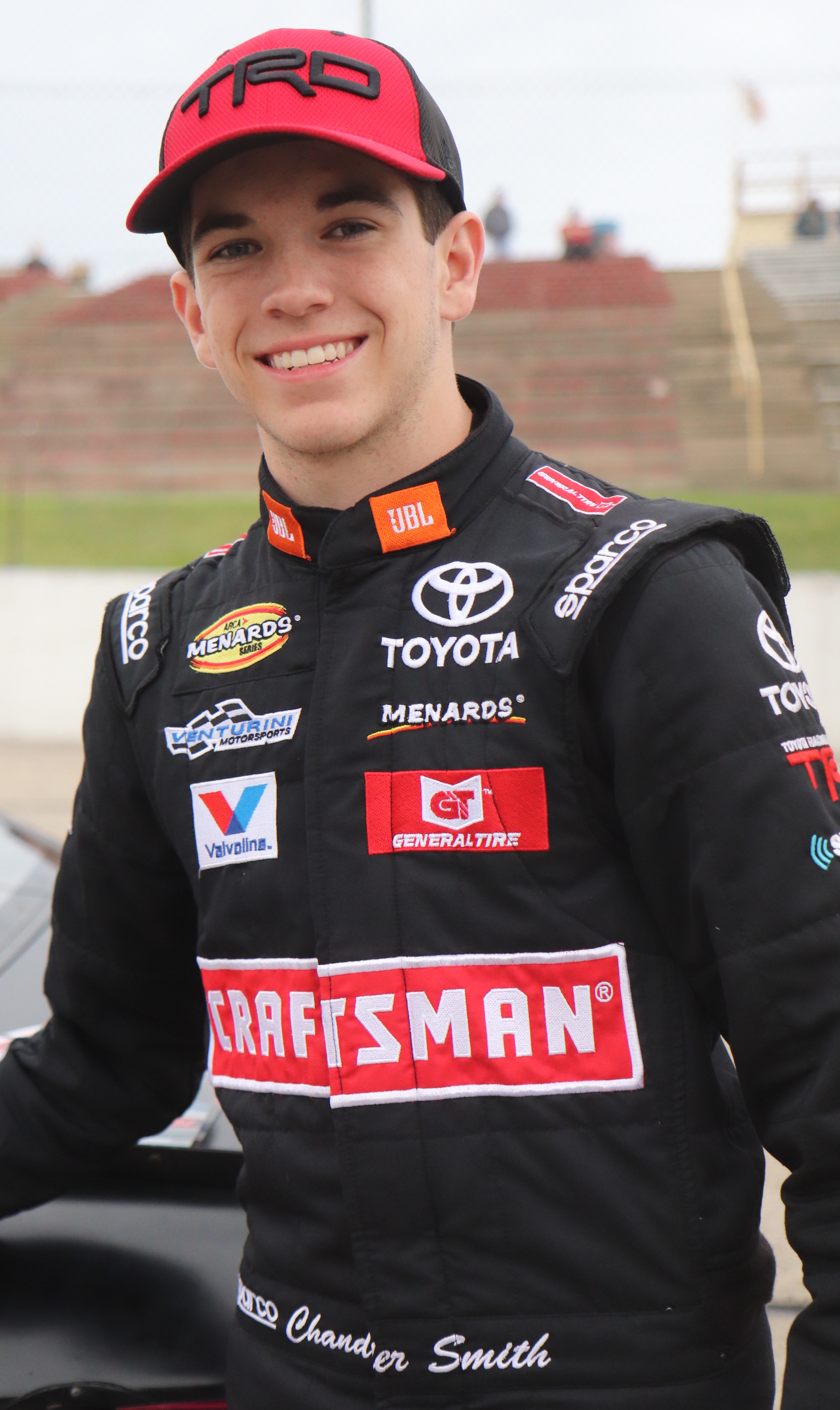 ARCA driver Chandler Smith posing at Madison International Speedway before winning the race.